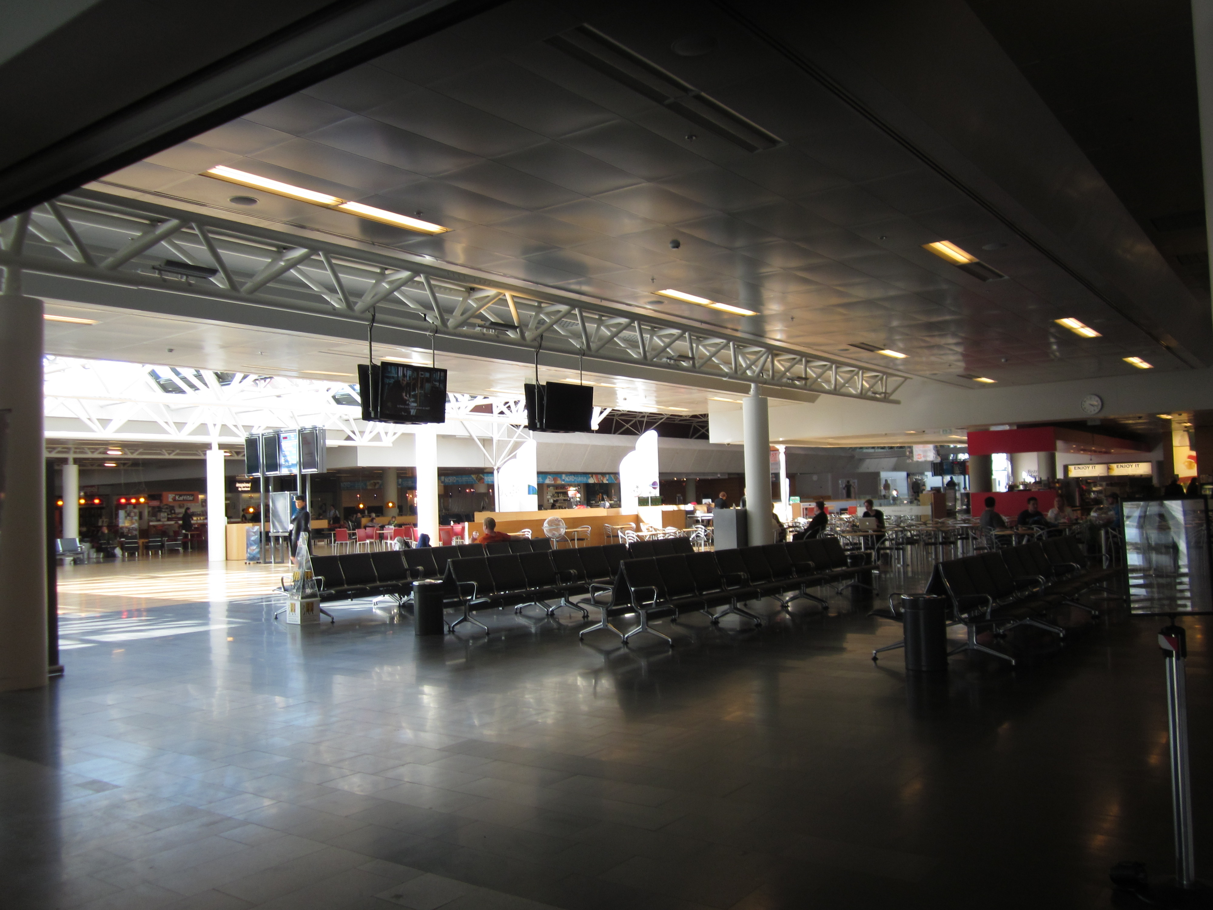 Iceland Leifur Eiríksson Air Terminal's waiting room in Keflavik Airport